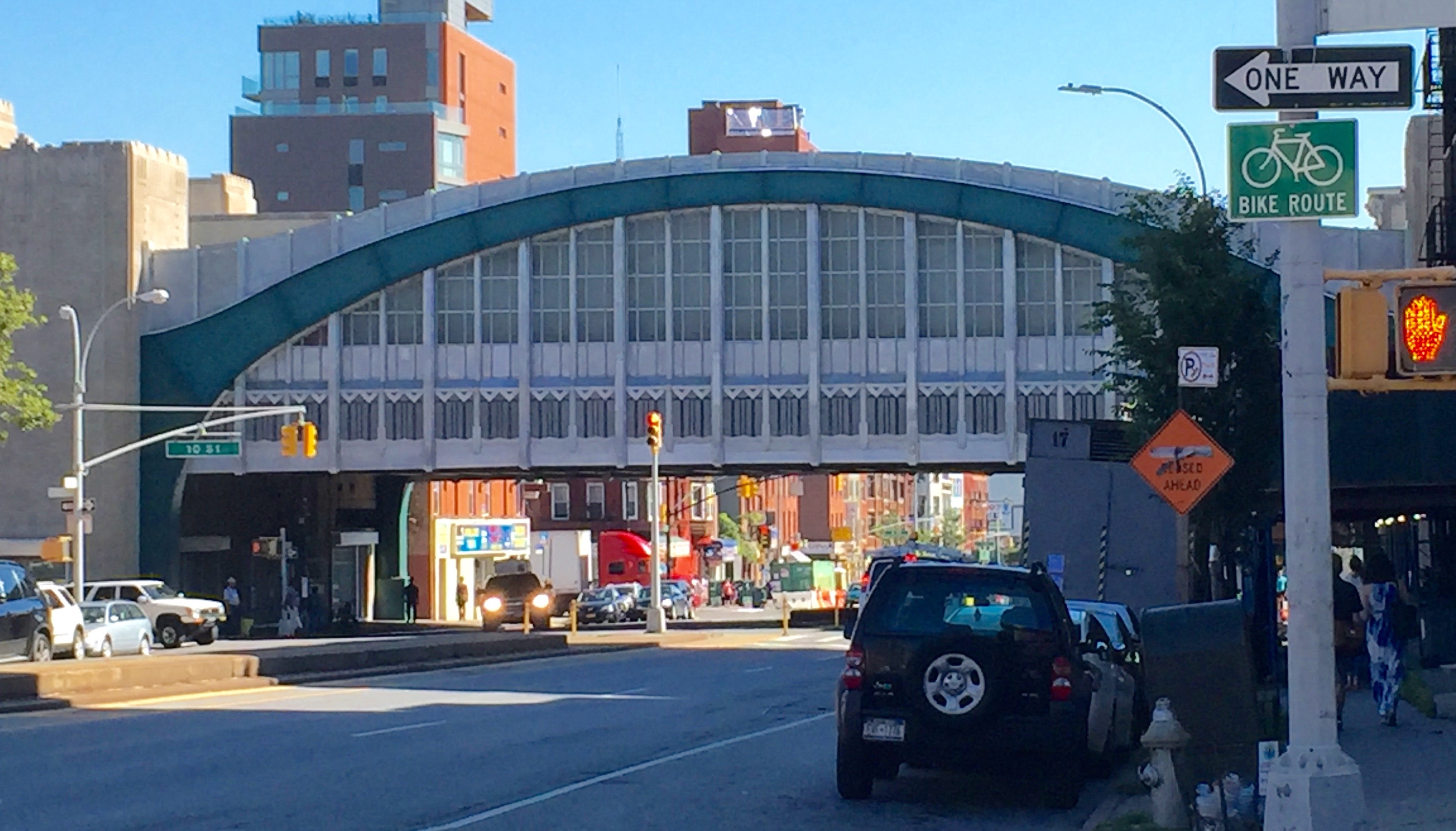 Renovated bridge at 4 Av - 9 St on the F/G.